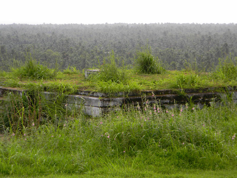 Old ruins of the fort